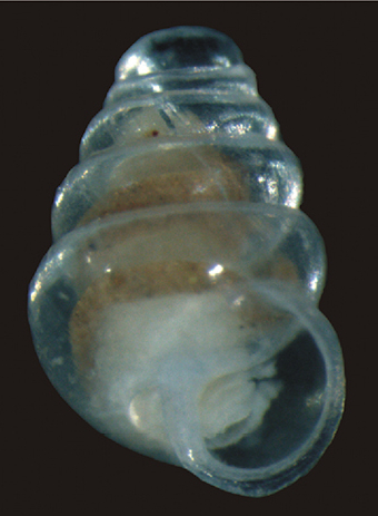 Holotype of Zospeum tholussum. Cropped from Fig. 2, which is also available as File:Holotype and paratypes of Zospeum tholussum - SubtBiol-011-045-g002.jpg.